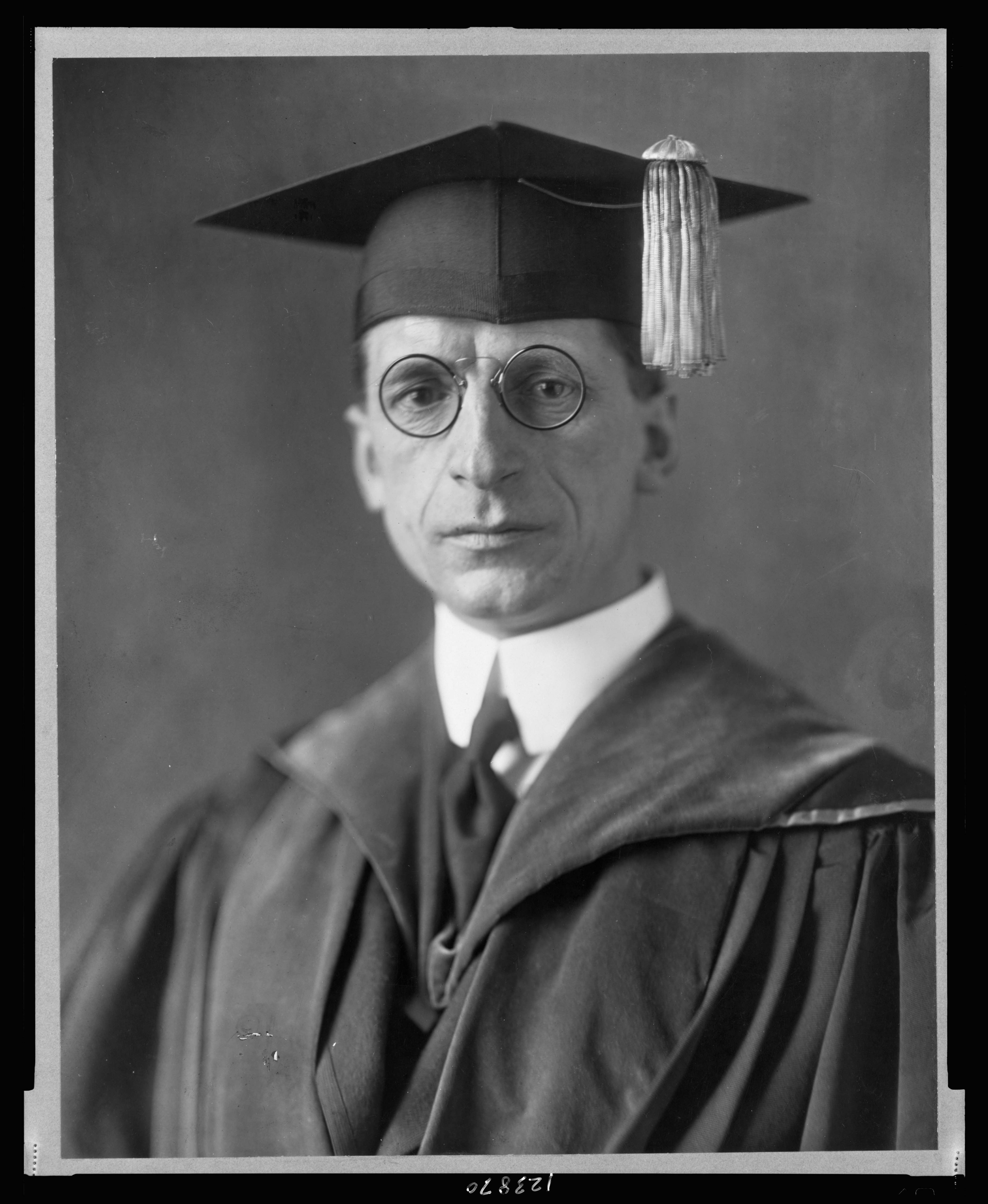 Title: Eamon De Valera, head-and-shoulders portrait, facing front, wearing cap and gown Abstract/medium: 1 photographic print.